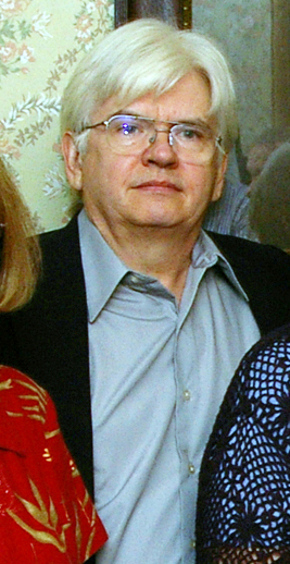 Musician David Hungate in September 2007.